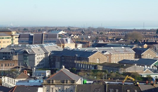 Rooftop view towards Cardiff Prison